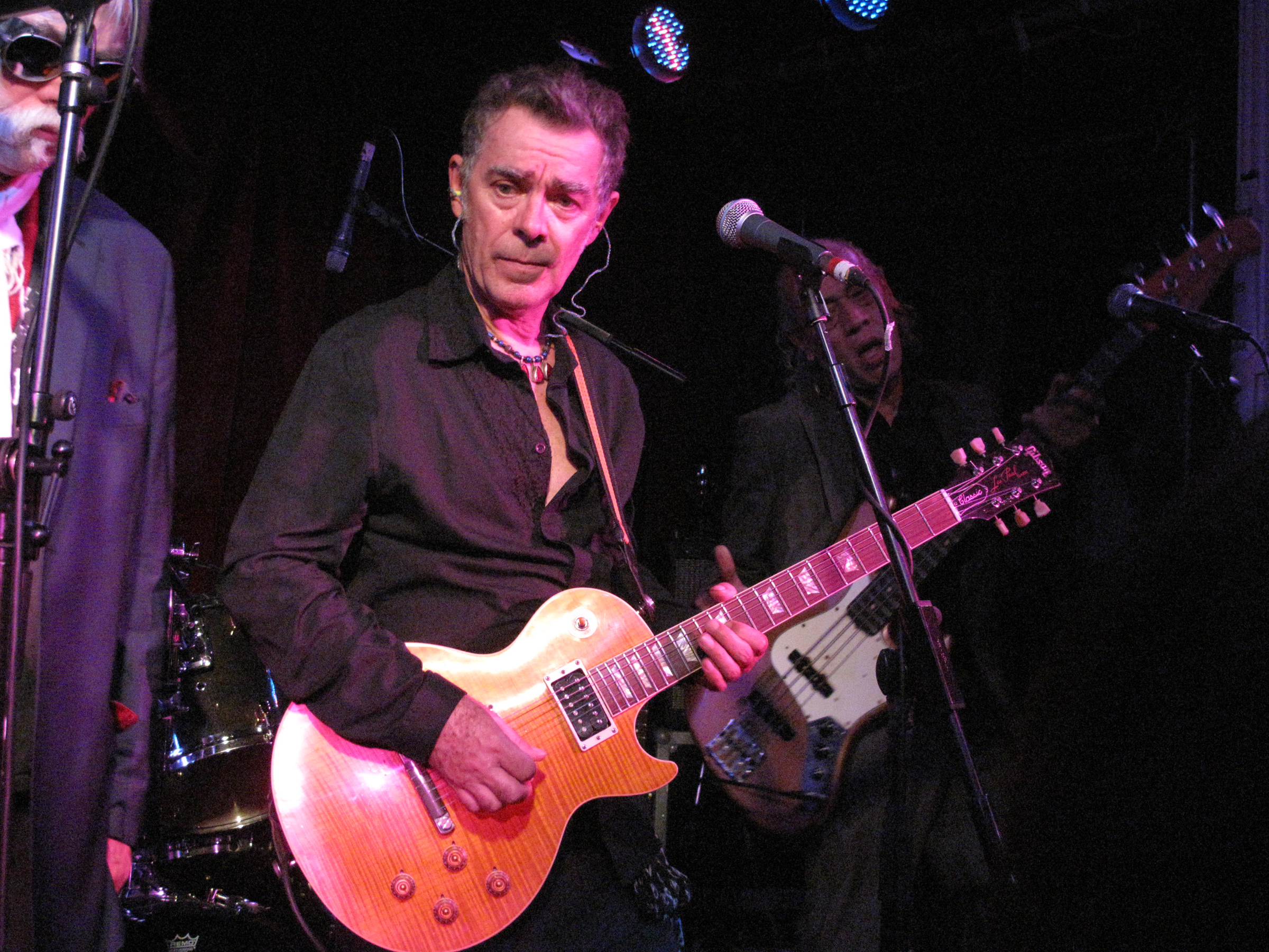 John Turnbull (The Blockheads) at Water Rats, London, 13.07.11